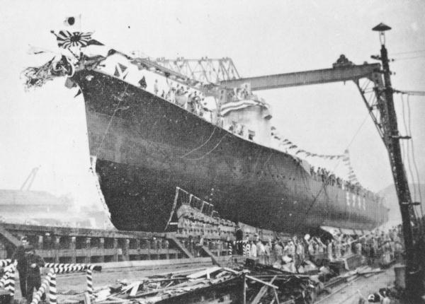 Imperial Japanese Navy Destroyer Minegumo (Asashio-class) launching at Fujinagata Shipyard, Osaka, Japan.